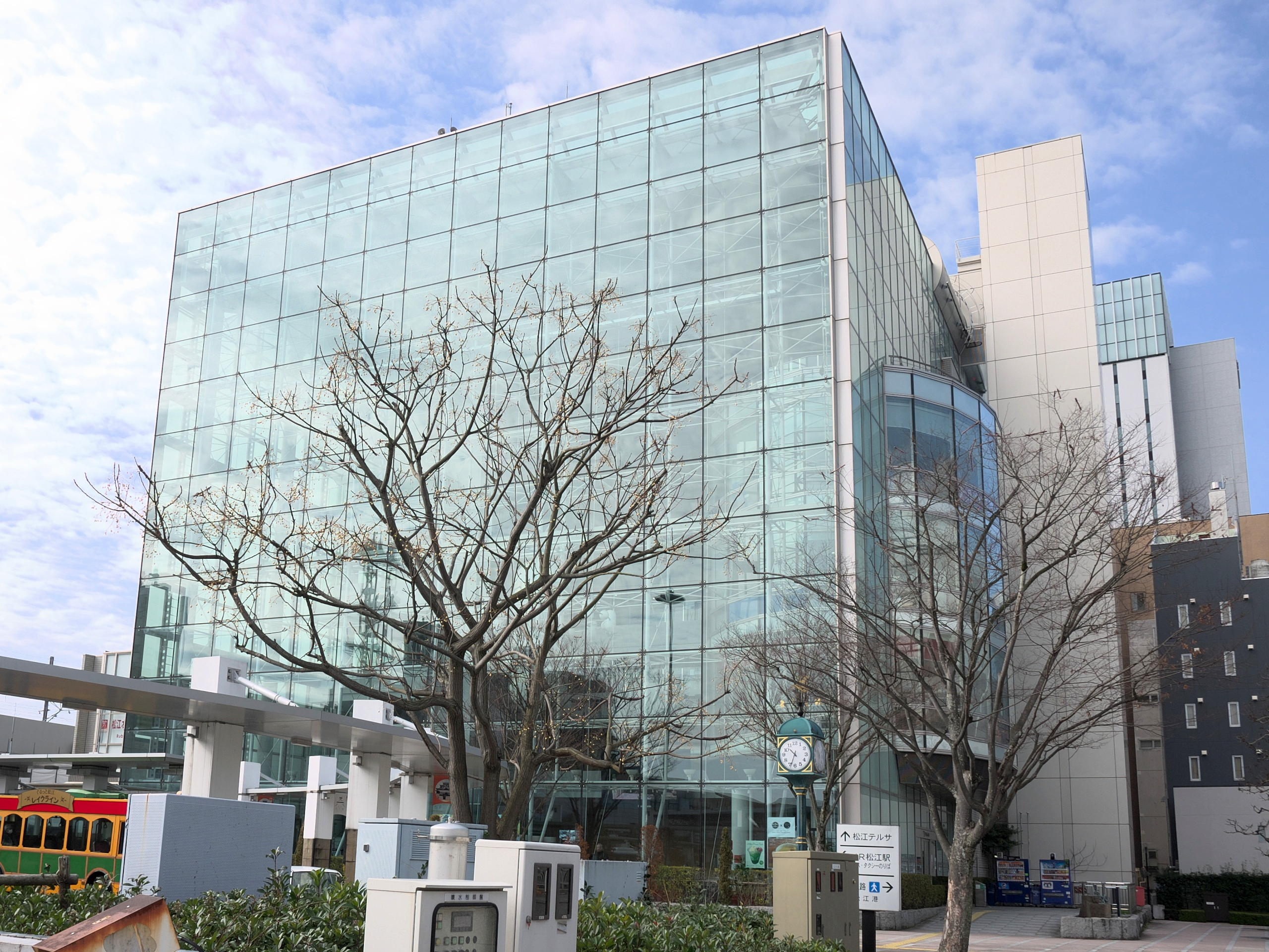 Matsue Terrsa in Matsue, Shimane prefecture